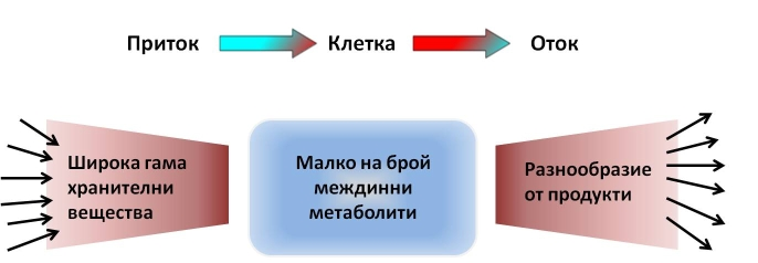 Bow tie metabolism